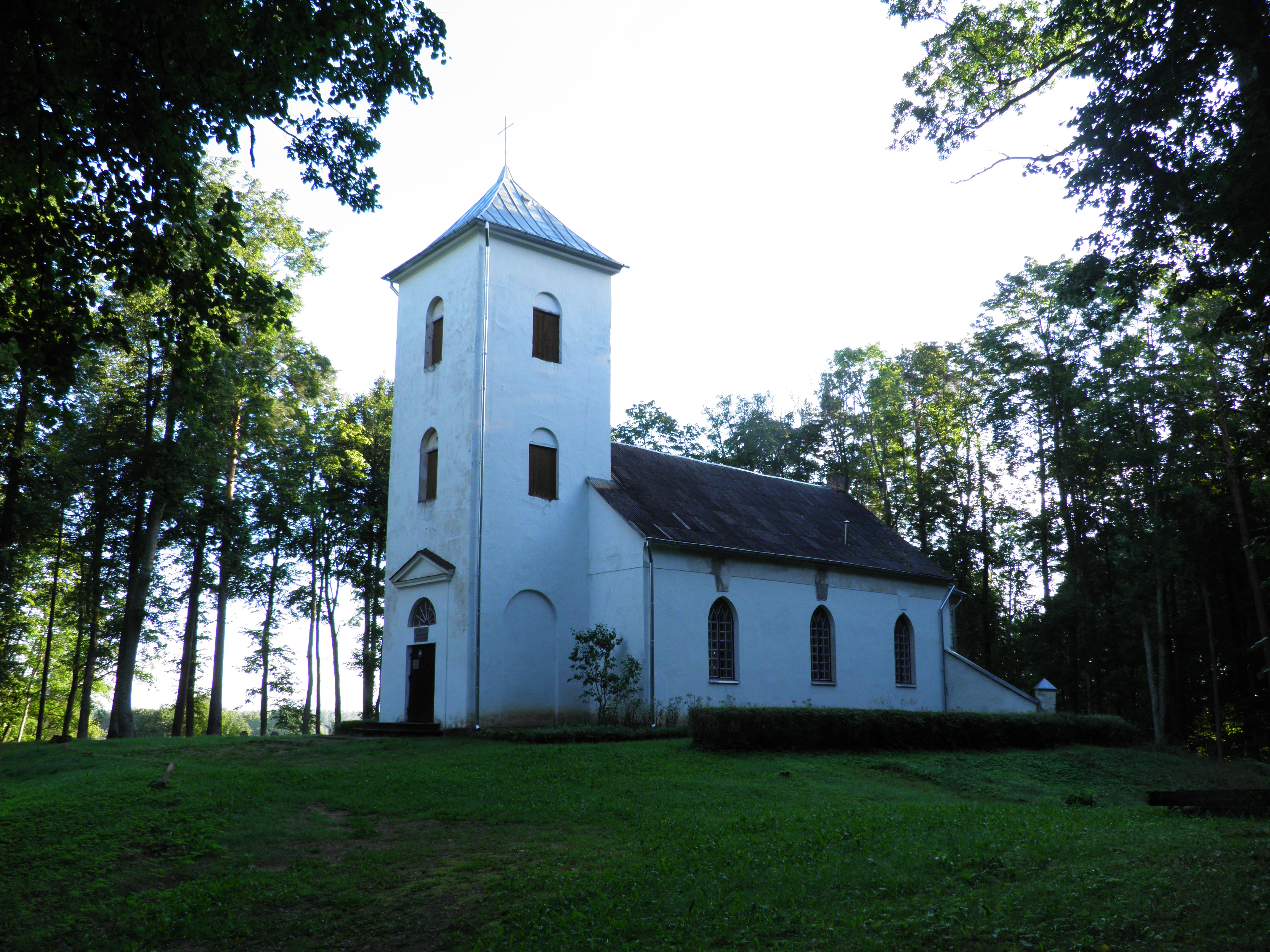 Daudzese church